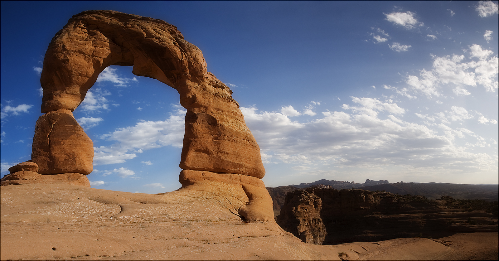 Delicate Arch, Arches National Park, Utah, USA